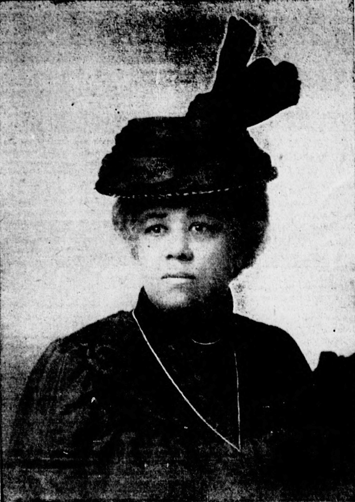 Harriet "Hattie" Panana Kaiwaokalani Napela Parker (March 19, 1852 – July 5/6, 1901) daughter of Jonathan Napela and Kitty Keliikuaaina Richards and wife of Samuel Parker.